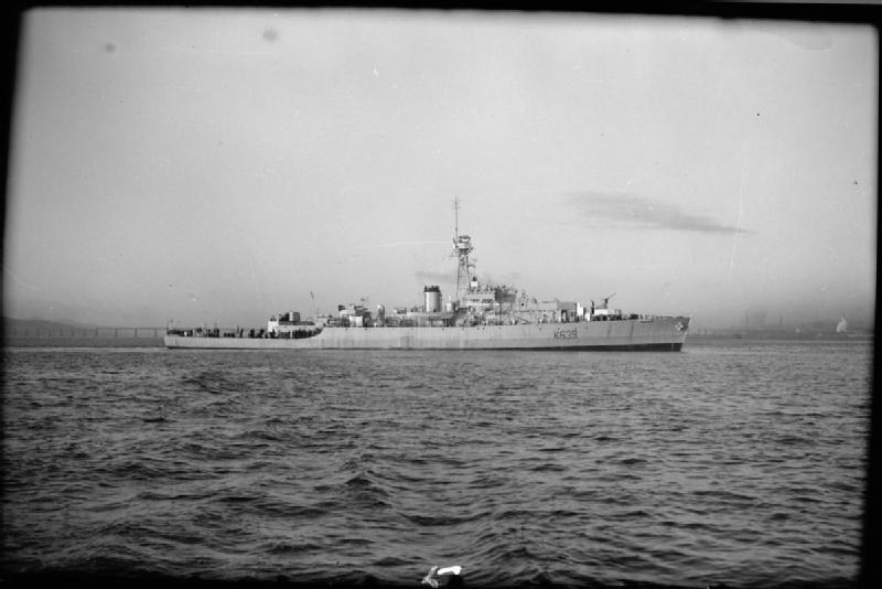 Photograph of British frigate HMS Loch More.